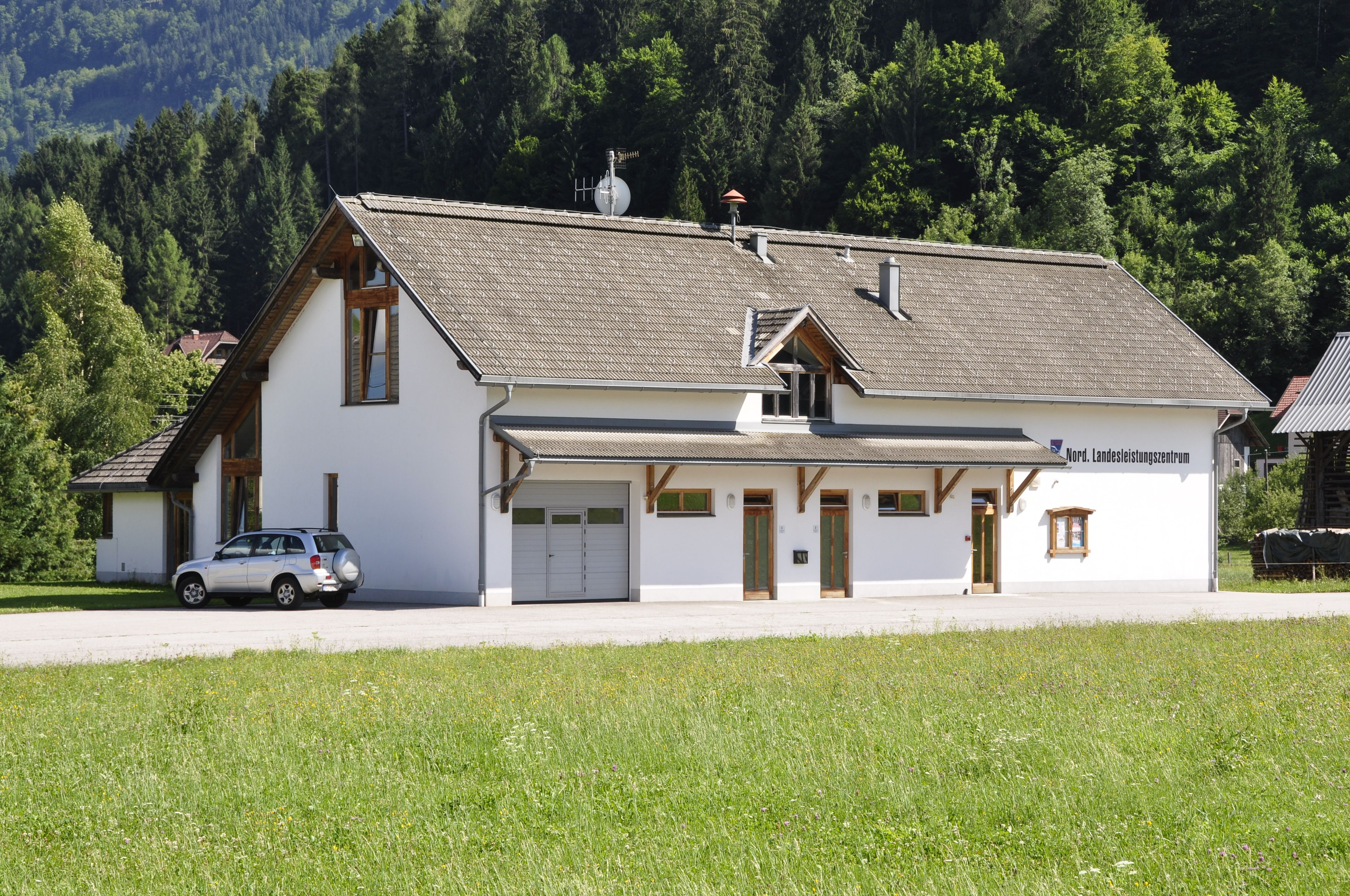 Nordic elite sports center of the state Carinthia in Achomitz, municipality Hohenthurn, district Villach Land, Carinthia, Austria, EU